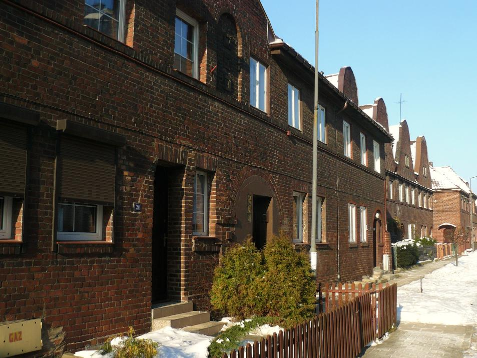 Poznan, Hutnicza Street, District from 1913.